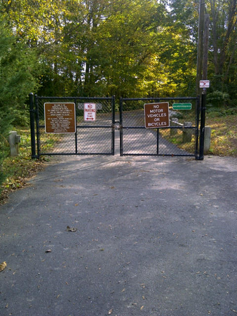 Beginning of the Ridgefield Rail Trail